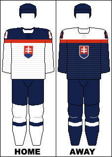 The home and away jerseys of the Slovak national ice hockey team with the Slovak coat of arms in the middle, as used at the 2014 Winter Olympics in Sochi.